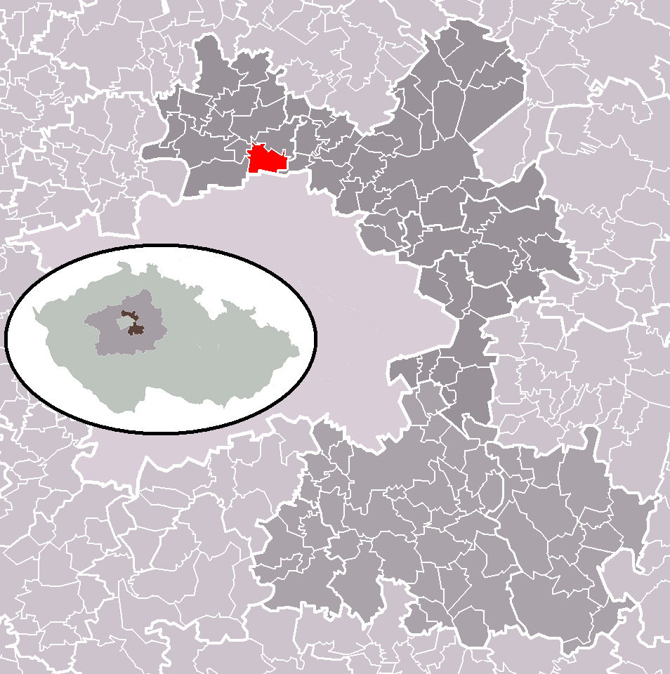 Location of Bořanovice municipality within Prague-East District and administrative area of Brandýs nad Labem-Stará Boleslav as a Municipality with Extended Competence.